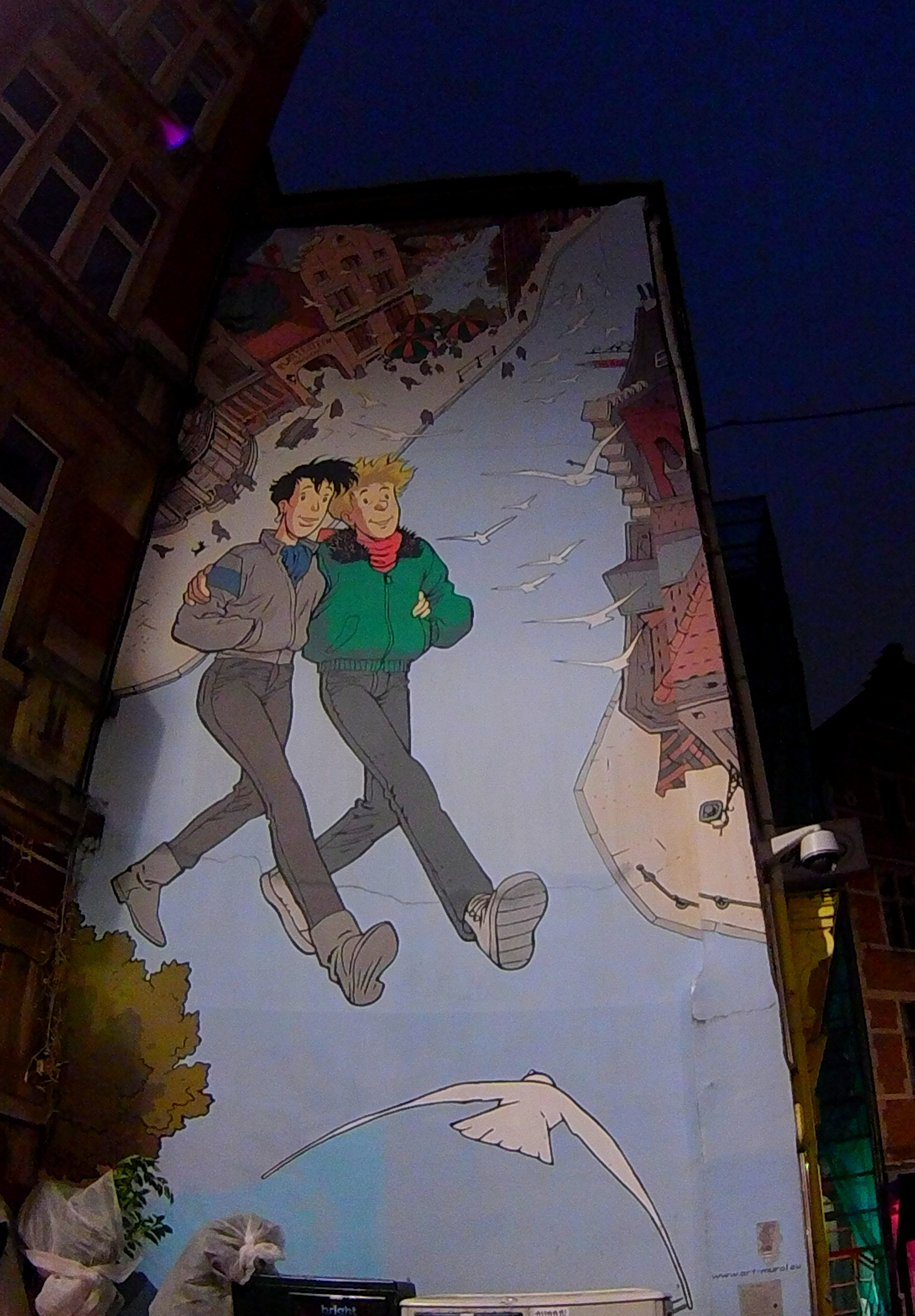 A facade in the streets of Brussels This photo of immovable heritage has been taken in the Brussels Capital Region